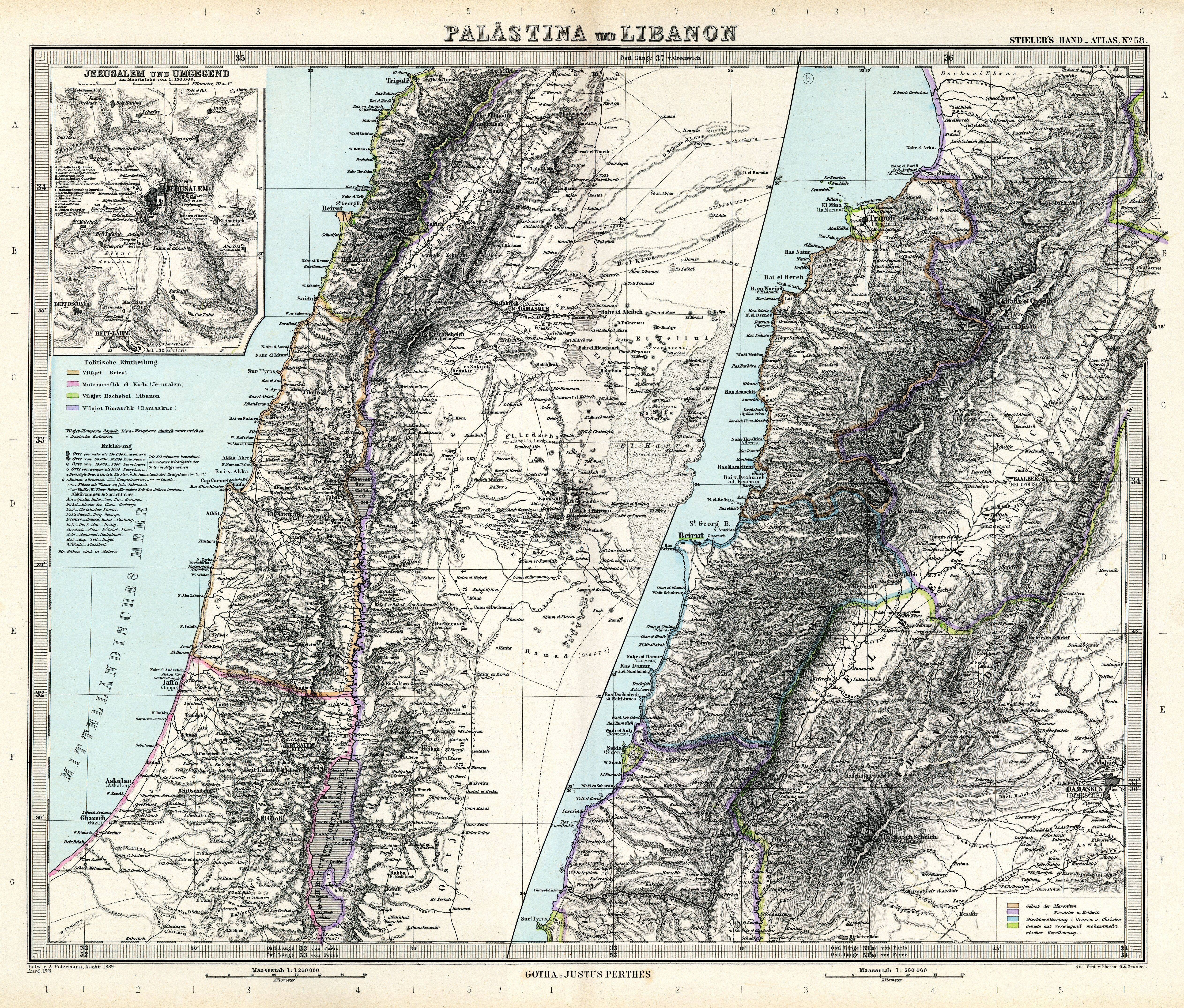 Palestine and the Lebanon